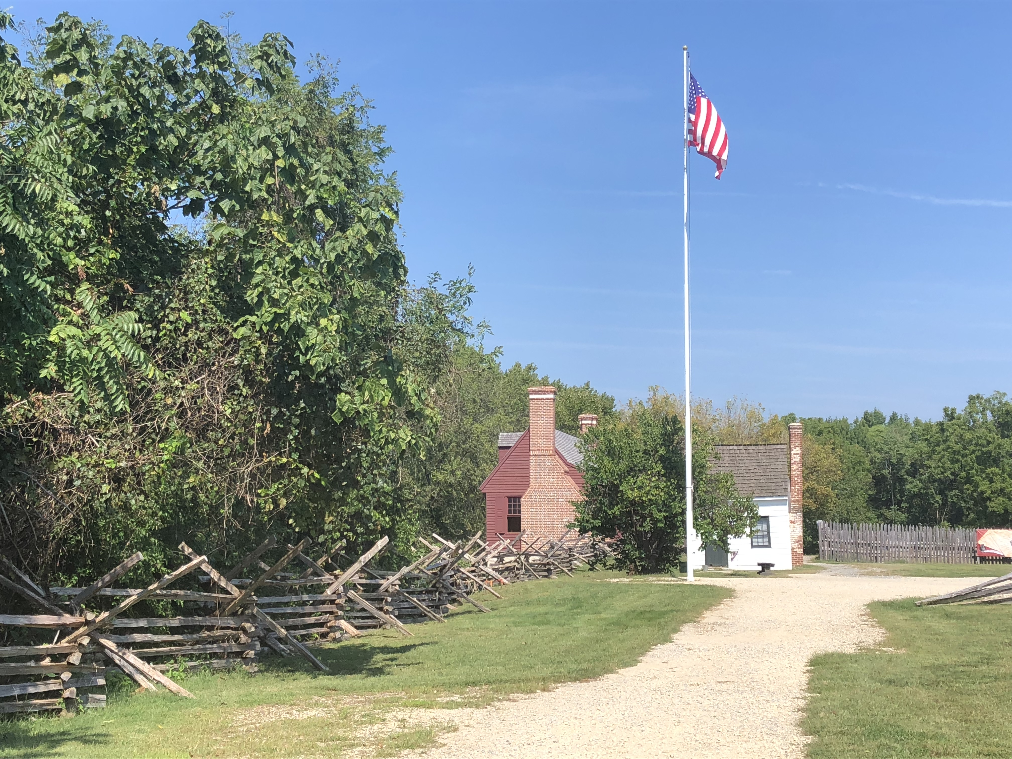 The pathway leading to the replica of George Washington's boyhood home built on the site of the original house at Ferry Farm in Stafford County, Virginia.